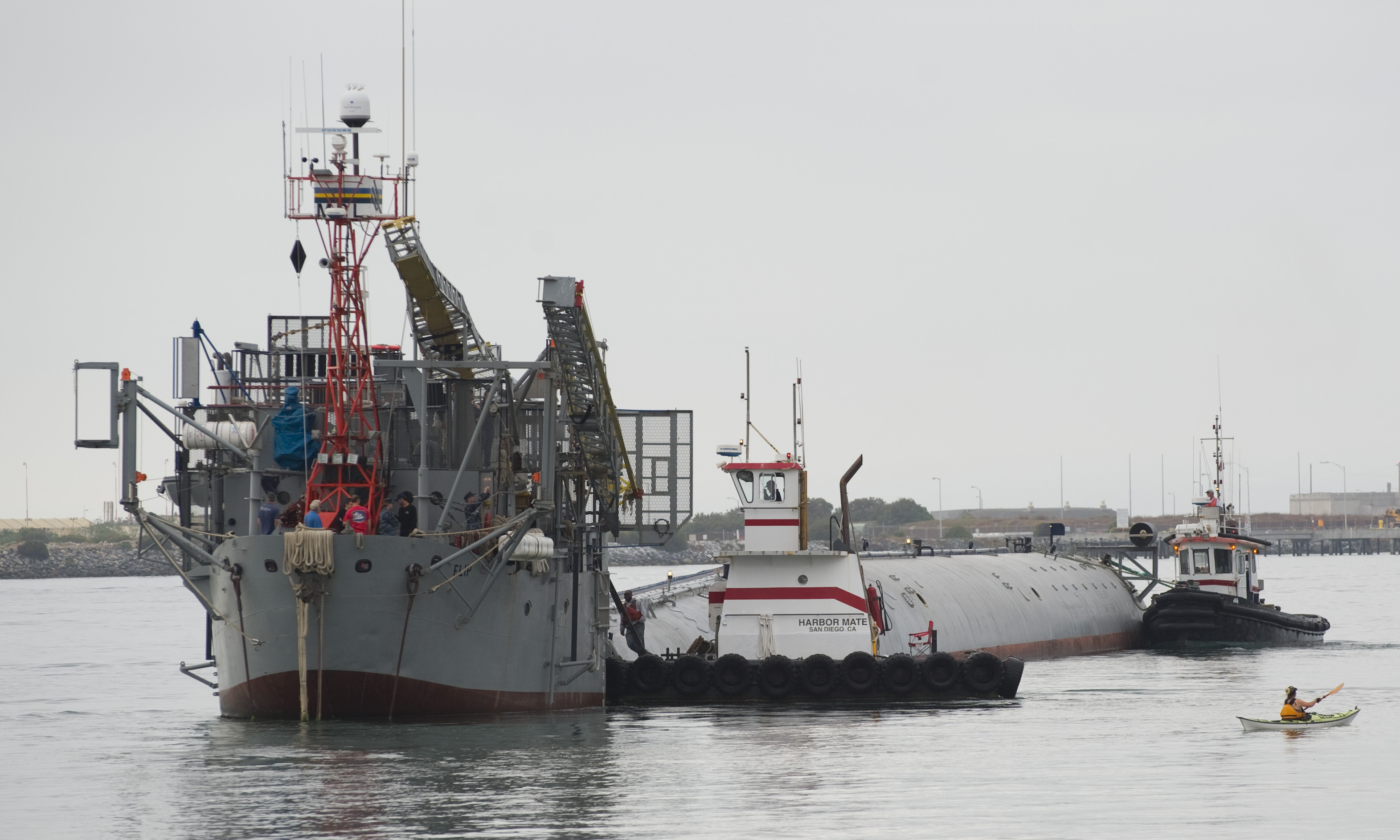 Tugs guide the Department of the Navy's Floating Instrument Platform (FLIP) from her berth at the Nimitz Marine Facility in Point Loma, Calif. FLIP has no propulsion power and it is towed in the horizontal position to and from its research locations. The 355-foot research vessel, owned by the Office of Naval Research and operated by the Marine Physical Laboratory at Scripps Institution of Oceanography at University of California, conducts investigations in a number of fields, including acoustics, oceanography, meteorology and marine mammal observation.